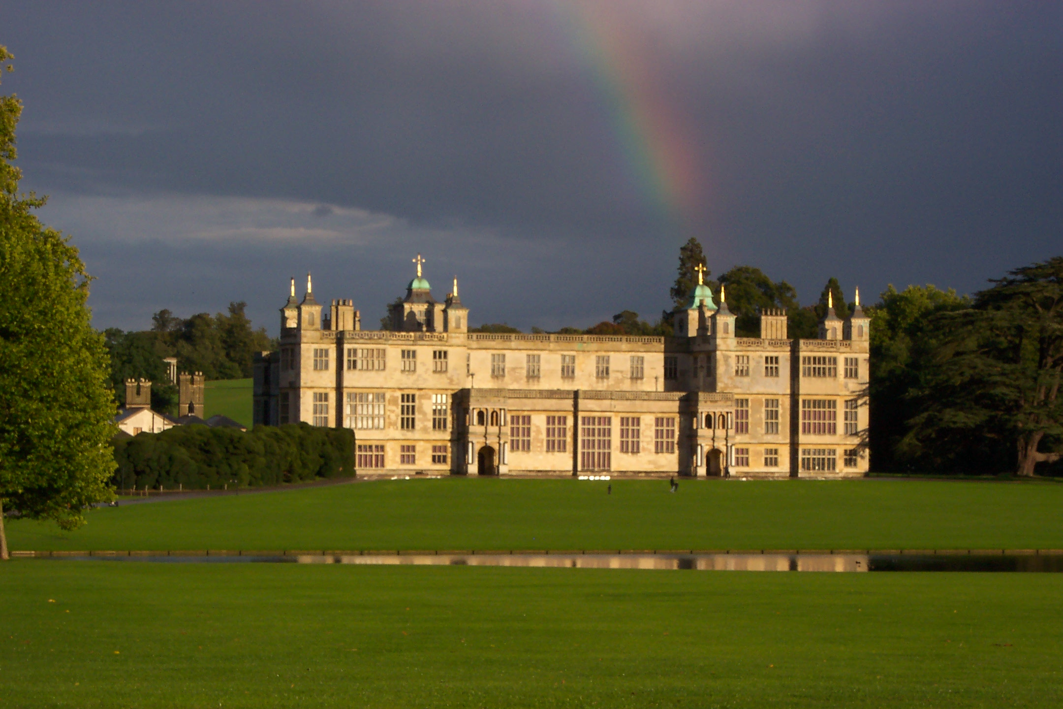 Taken by Paul Wells, 1st October 2005